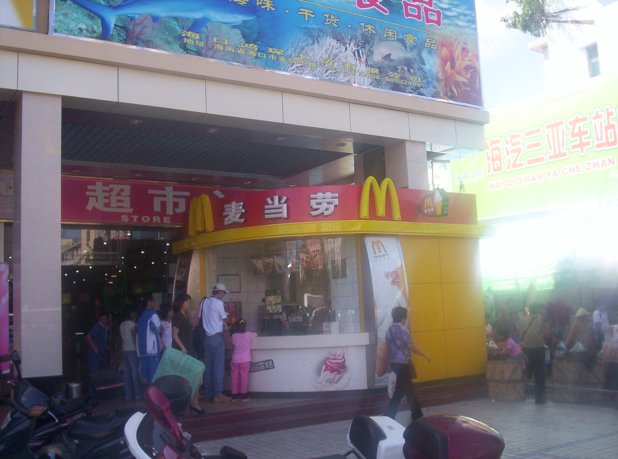 A McDonalds drinks and ice cream shop in Sanya, Hainan Province, China.